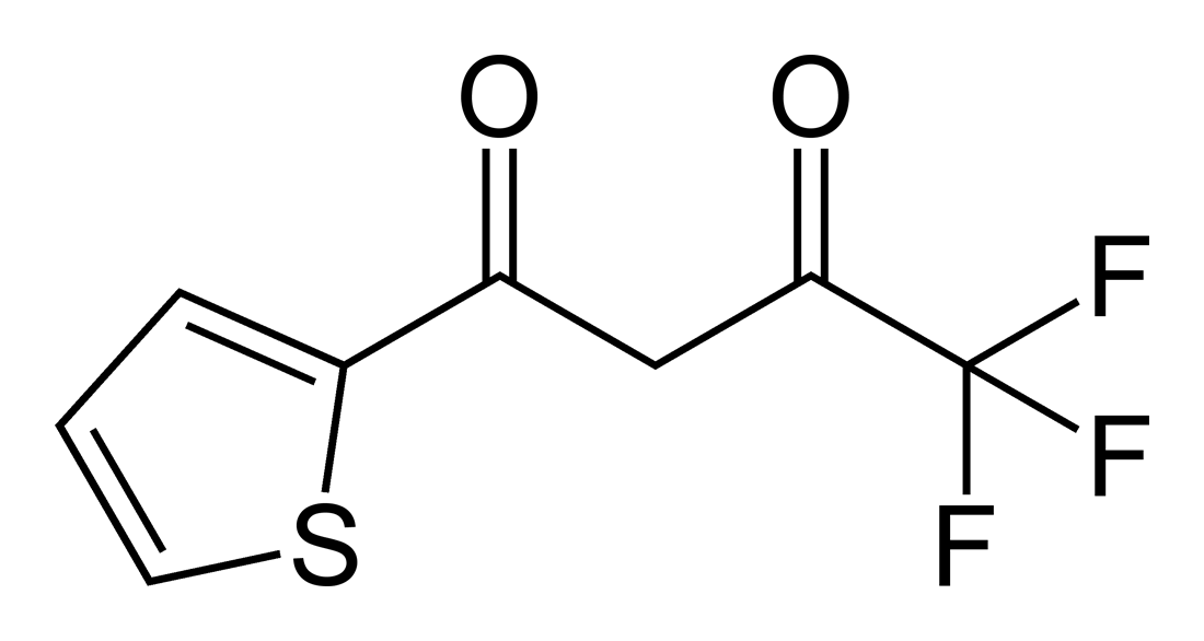 Skeletal formula of thenoyltrifluoroacetone